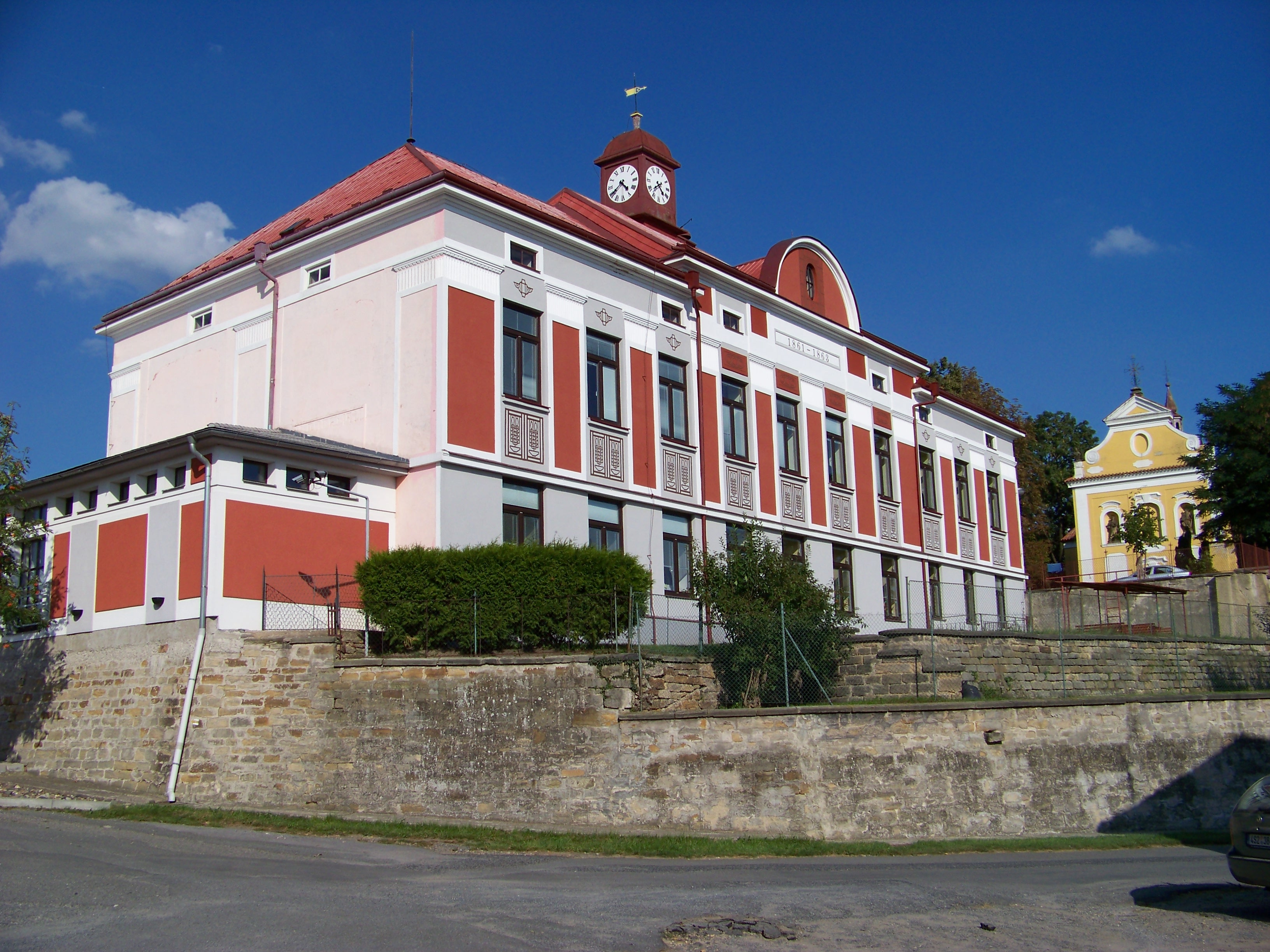 Jirny, Prague-East District, Central Bohemian Region, the Czech Republic. A school and a church, seen from K Lesu street.